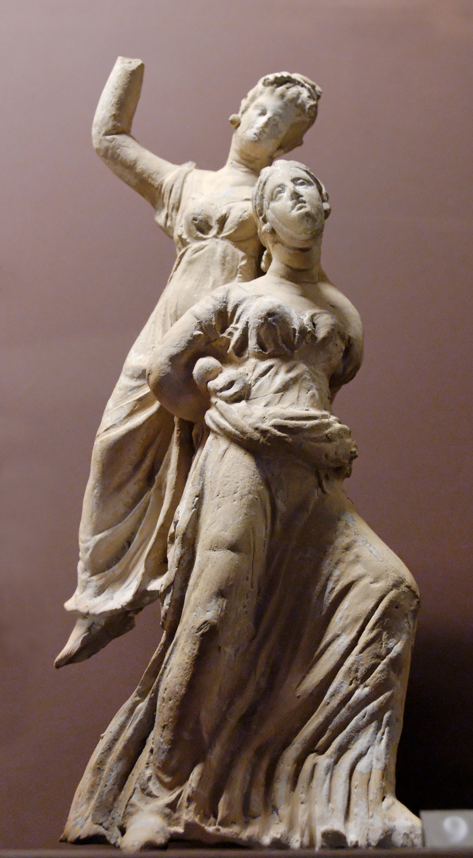 Girls playing the ephedrismos game. Terracotta figurine from Taranto, 3rd century BC.